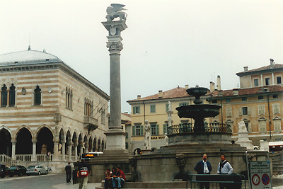 Udine, Italy Photo' by Wikityke.